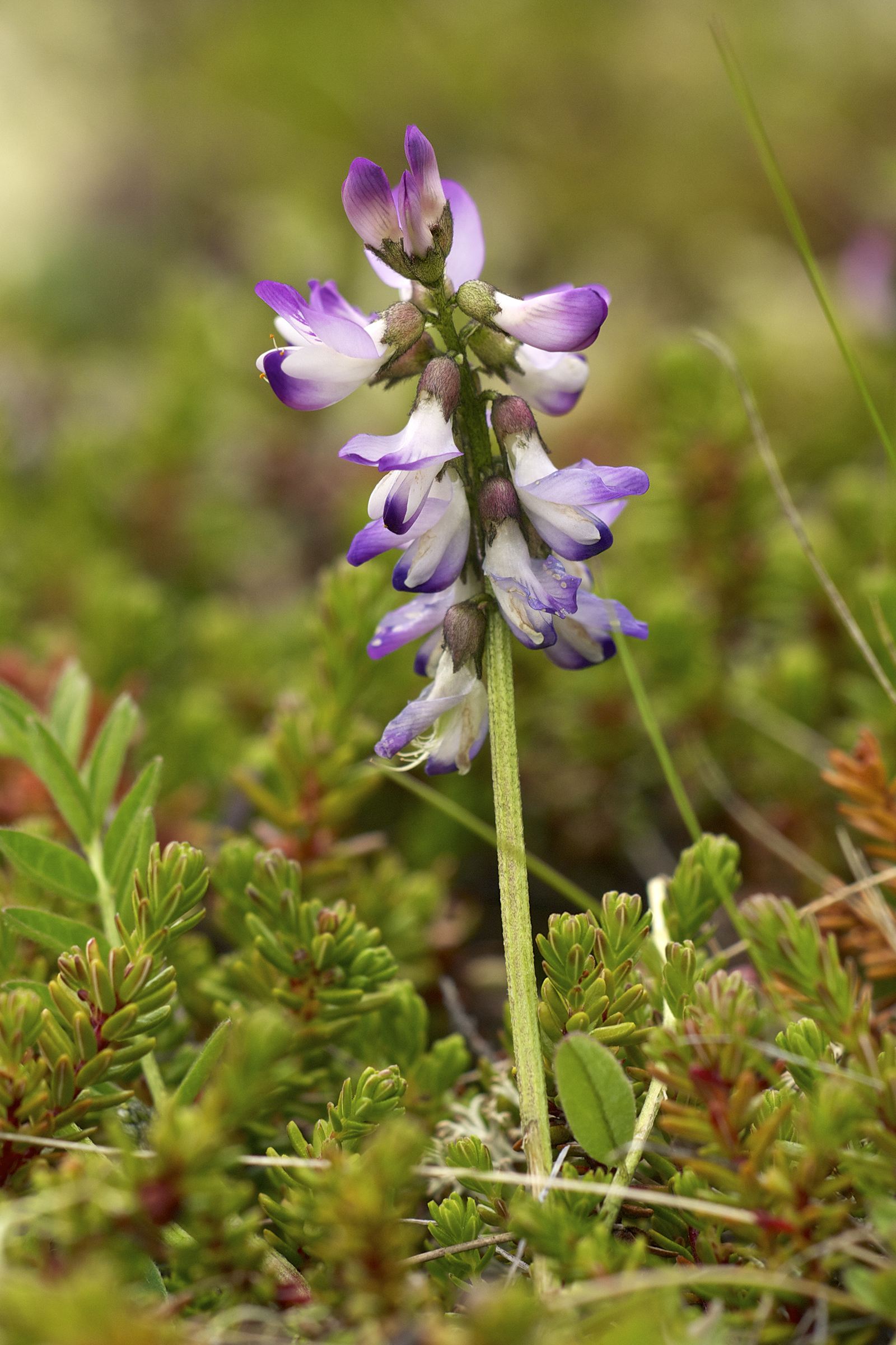 Alpine Milkvetch (Astragalus alpinus), Grimsdalen, Rondane National Park, Norway